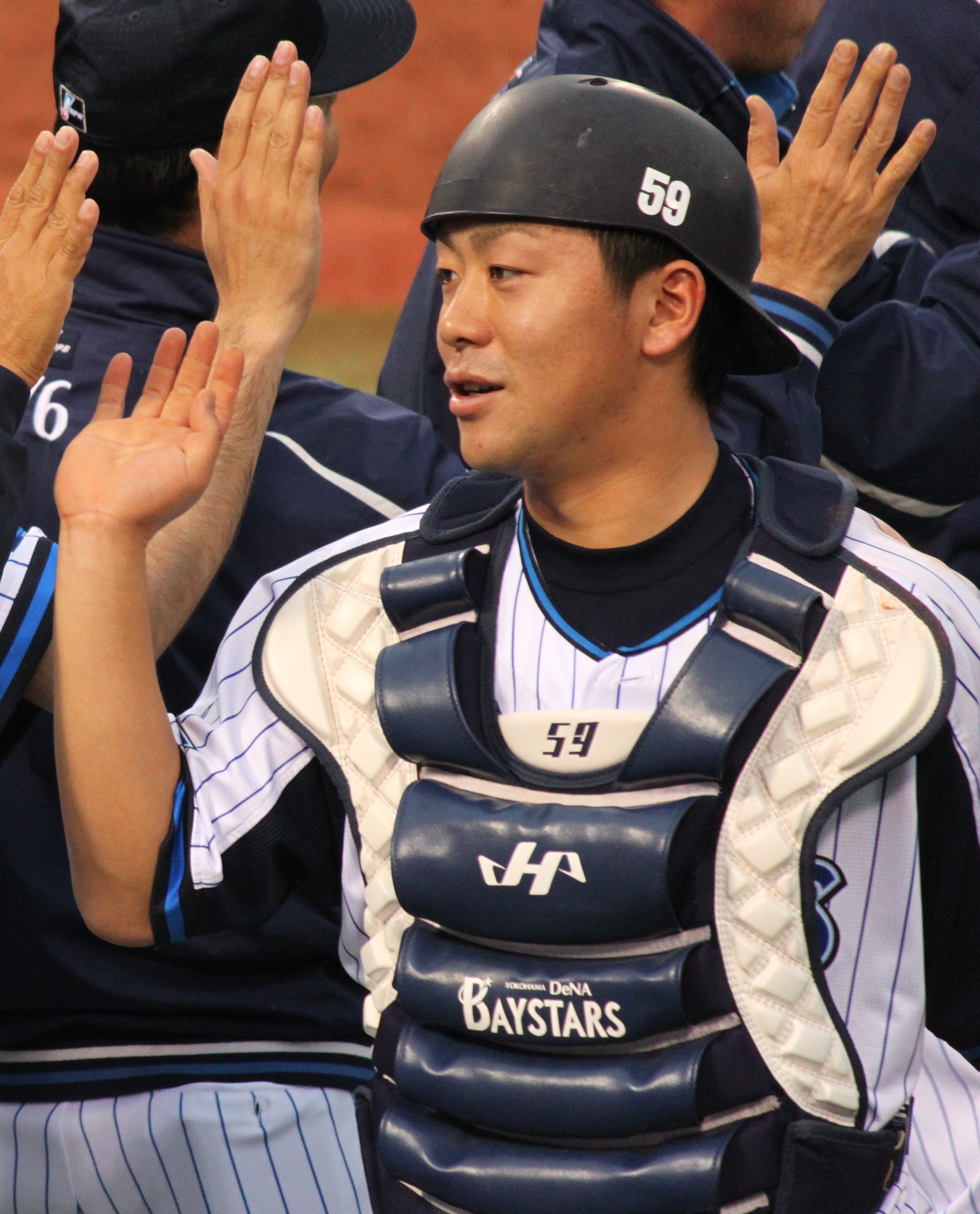 Toshiki Kurobane, catcher of the Yokohama DeNA BayStars, at Yokohama Stadium.